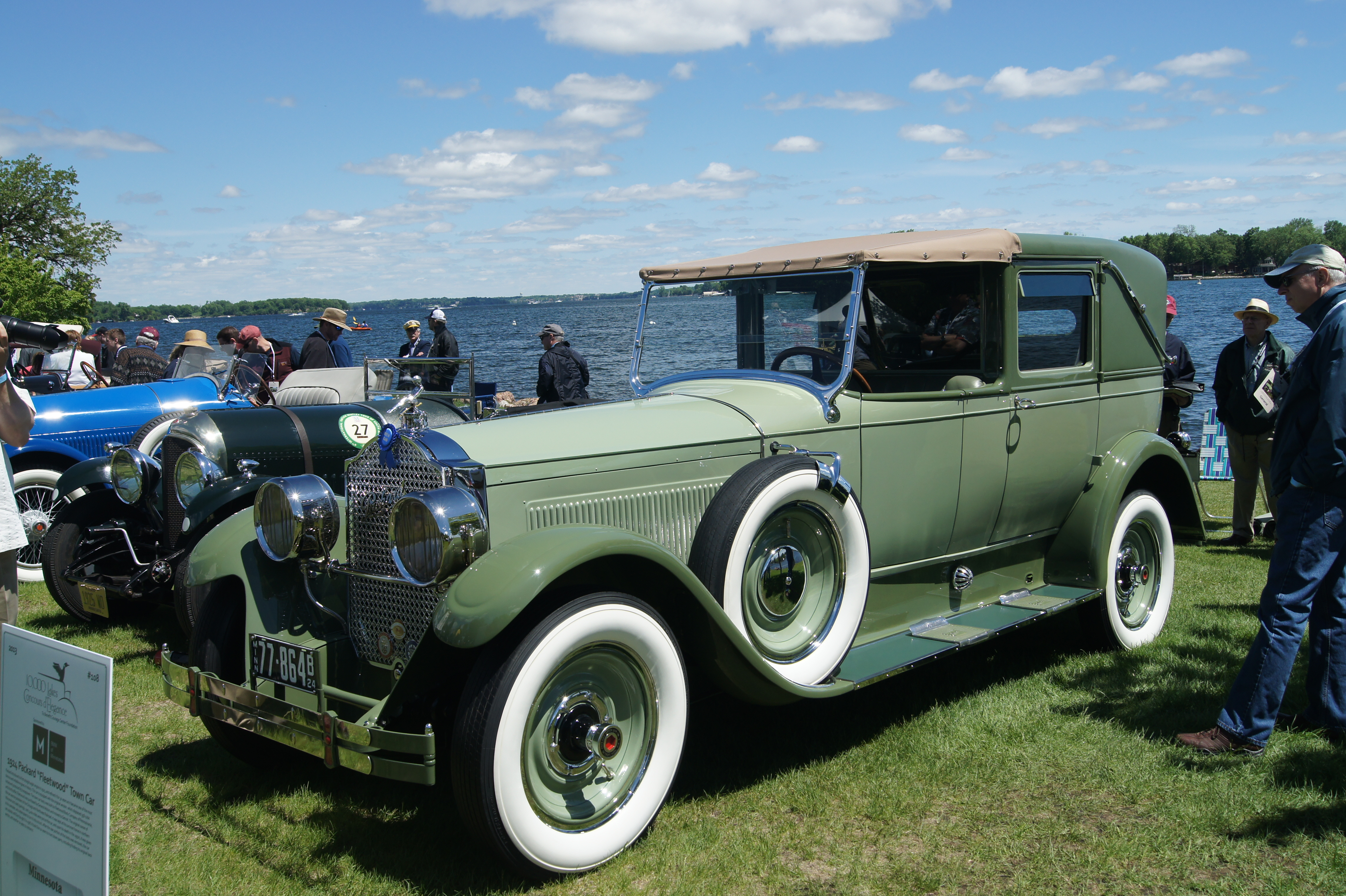 1924 Packard Town Car by Fleetwood 10,000 Lakes Concours d'Elegance 2013